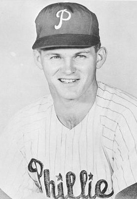 Professional baseball player Chris Short